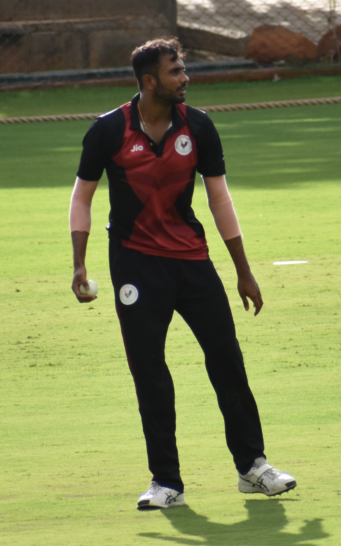 Indian cricketer Roosh Kalaria during the 2019-20 Vijay Hazare Trophy in Rajanukunte, Bangalore.